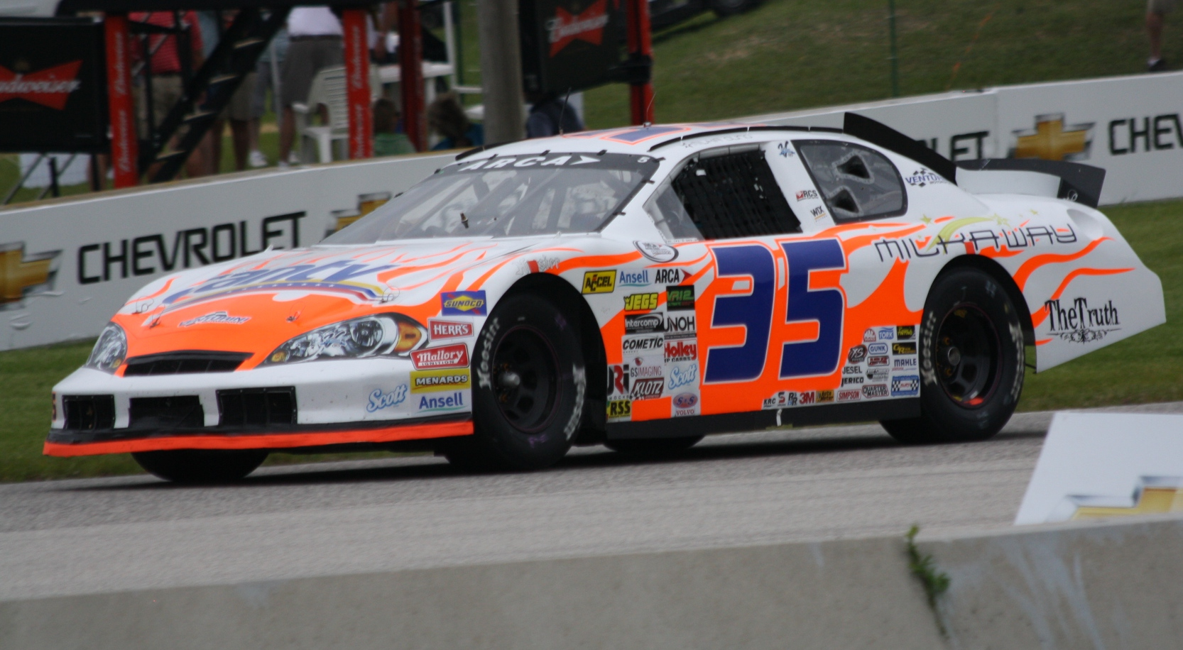 The ARCA Racing Series car of Milka Duno at the 2013 Scott 160 race at Road America.